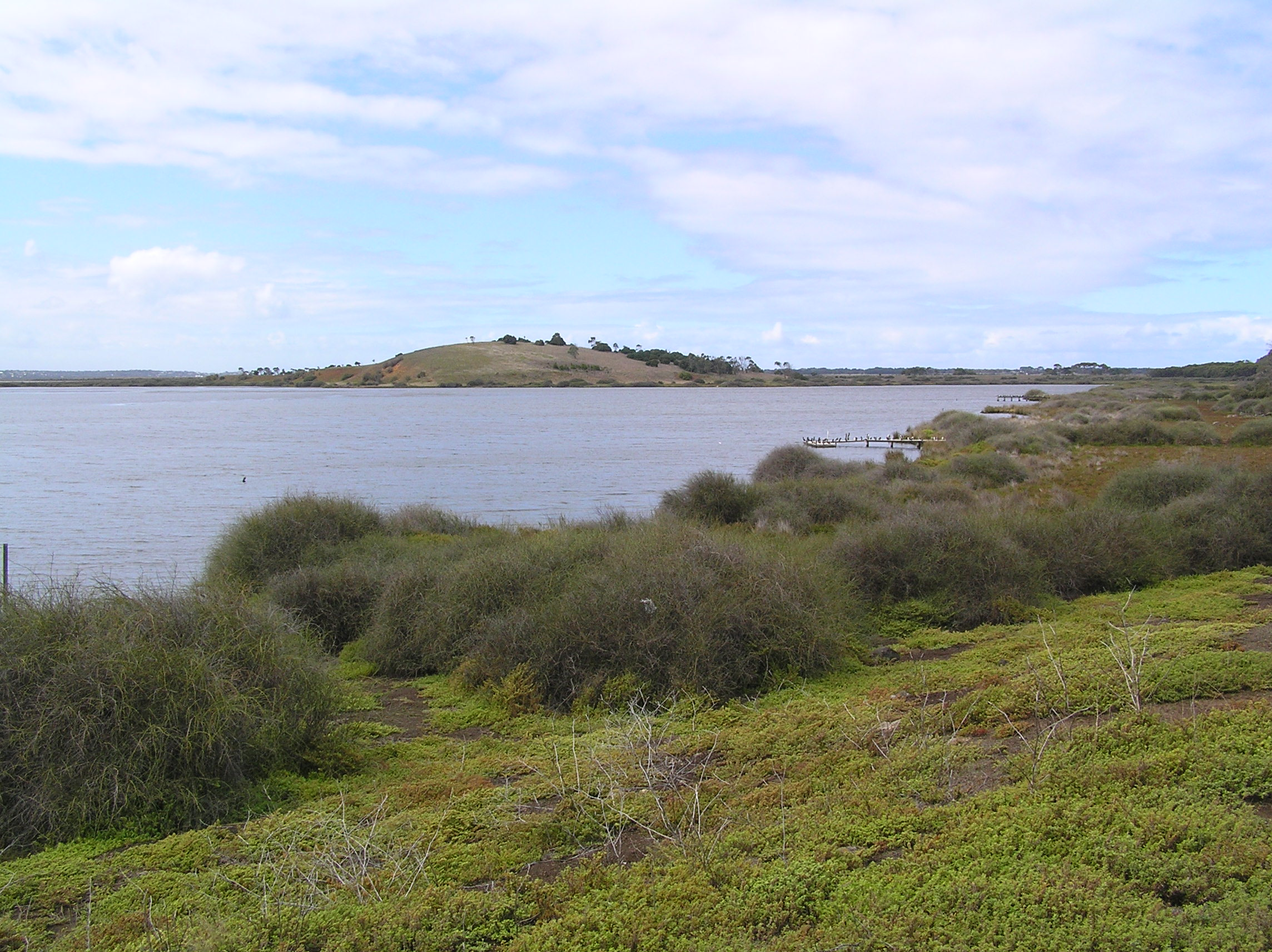 View of Lake Connewarre from Tait Point, Victoria, Australia.